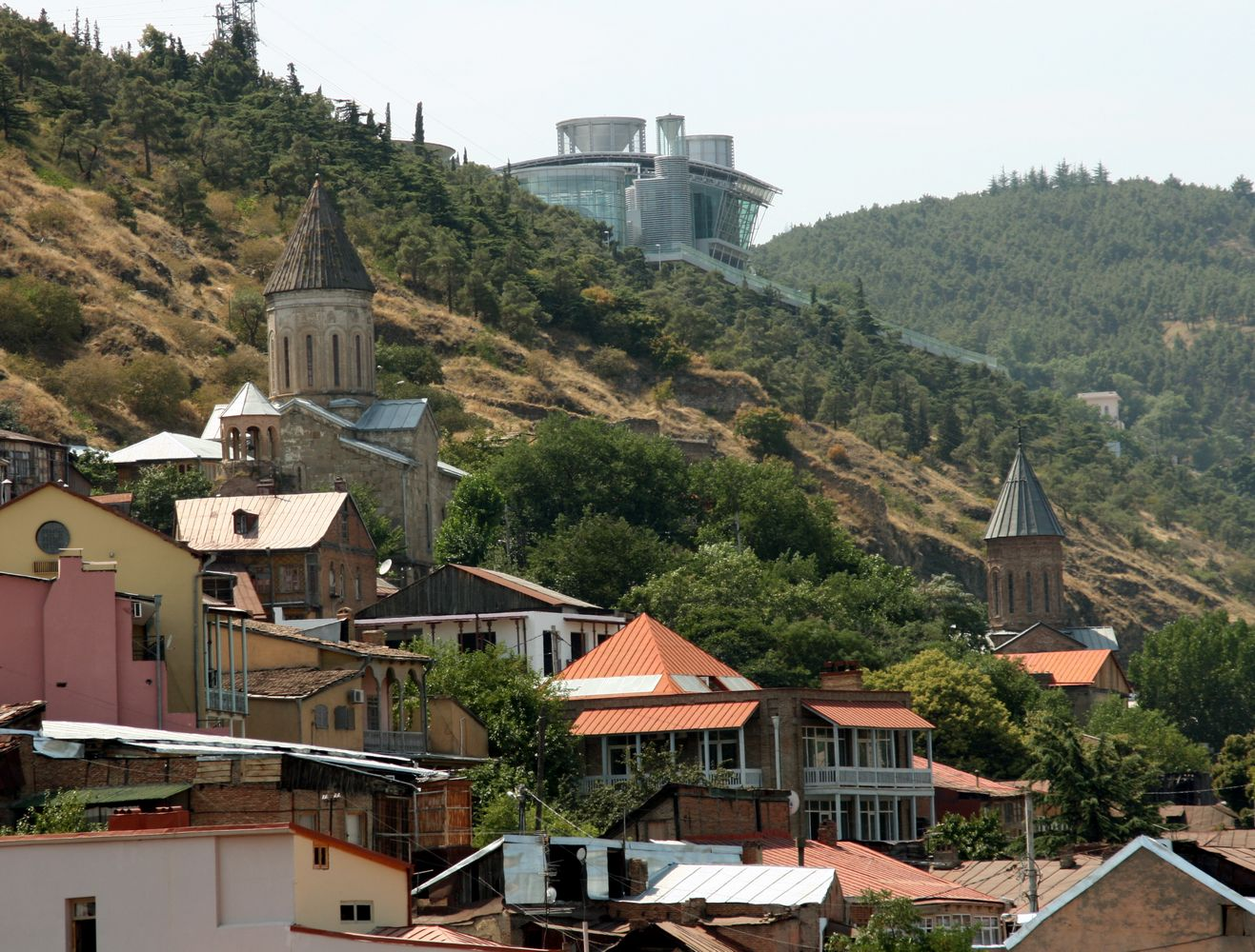 Zemo Betlemi & Kvemo Betlemi churches, Tbilisi